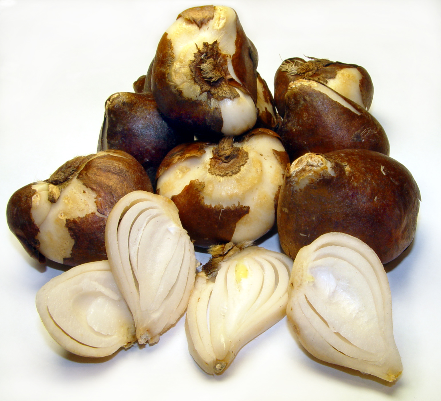 Tulipa fringed 'Burgundy Lace', bulbs